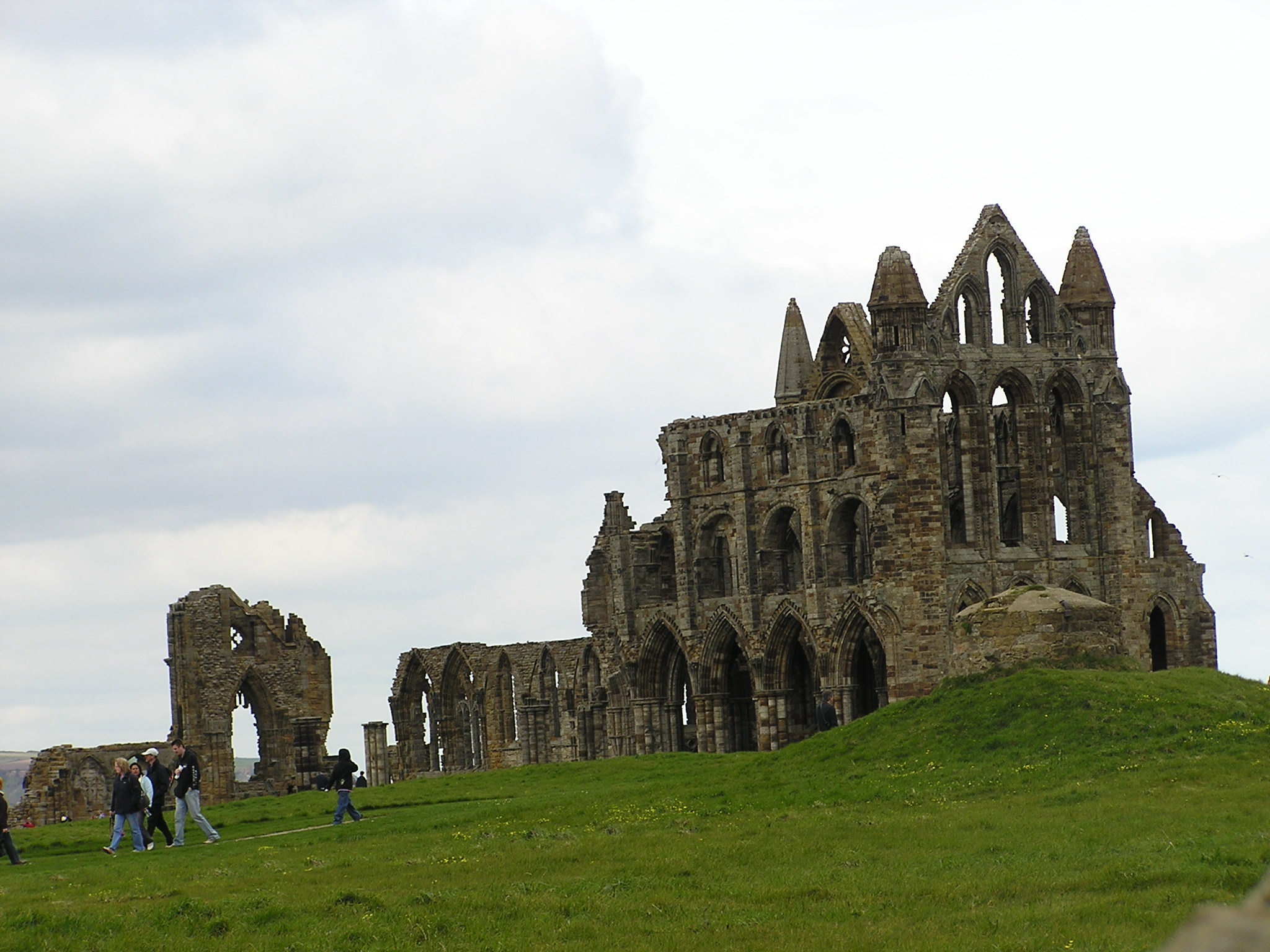 Whitby abbey, England